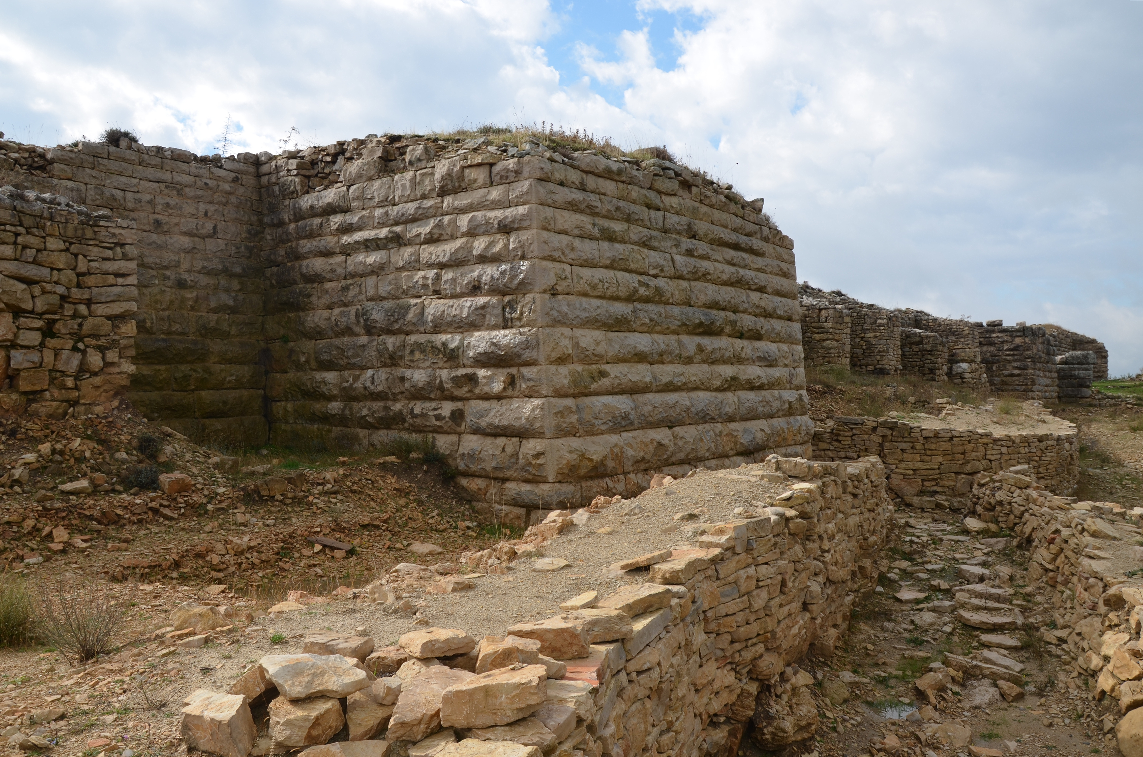 At Asseria, near Podgrađe, 6km east of Benkovac are the remains of an urban settlement almost a kilometre long. Asseria was founded long before the Romans set foot on these lands. It was a powerful centre of the Liburnian tribe, whose territories stretched for miles along the eastern Adriatic coast. When the Romans later occupied these lands, Asseria grew to become a municipality with a governing council. The golden era of Asseria came to an end when Avar (and sometimes Slav) tribes swept across the plains of Europe, and the Roman Empire crumbled. The last mention of the settlement is from the 11th century.